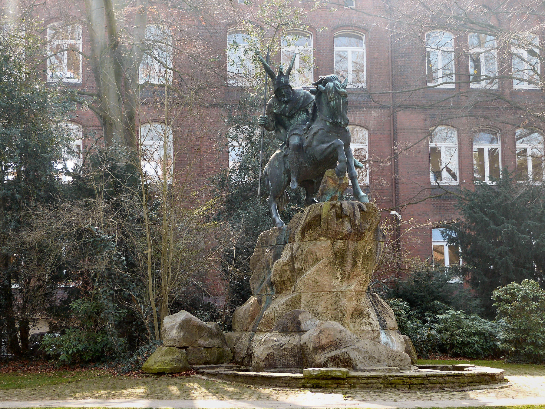 Widukind memorial after the original by Heinrich Wefing in Herford, District of Herford, North Rhine-Westphalia, in the background the Catholic primary school Herford.